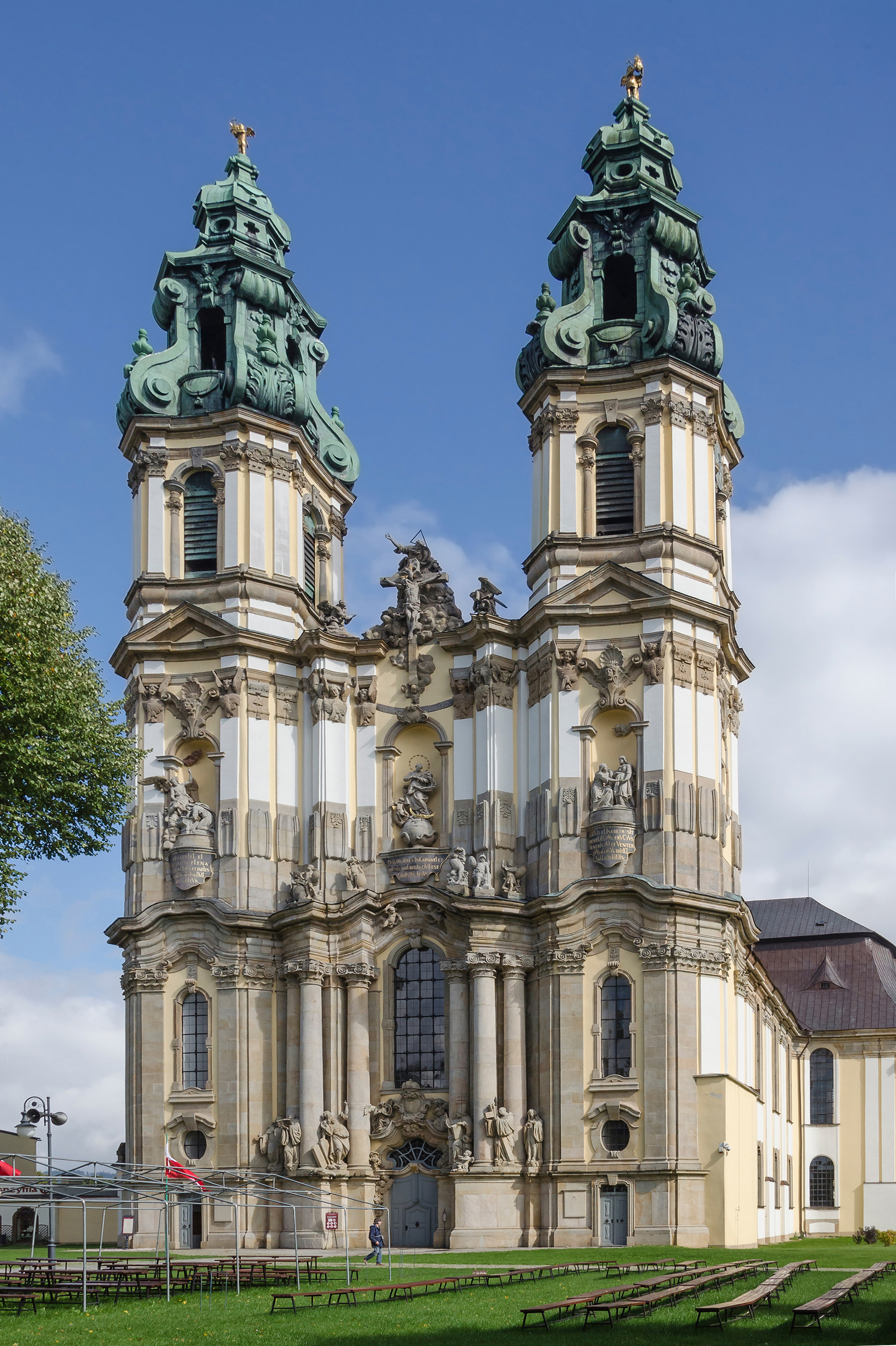 Basilica of the Assumption in Krzeszów Ta fotografia przedstawia zabytek wpisany do rejestru zabytków pod numerem ID 592200